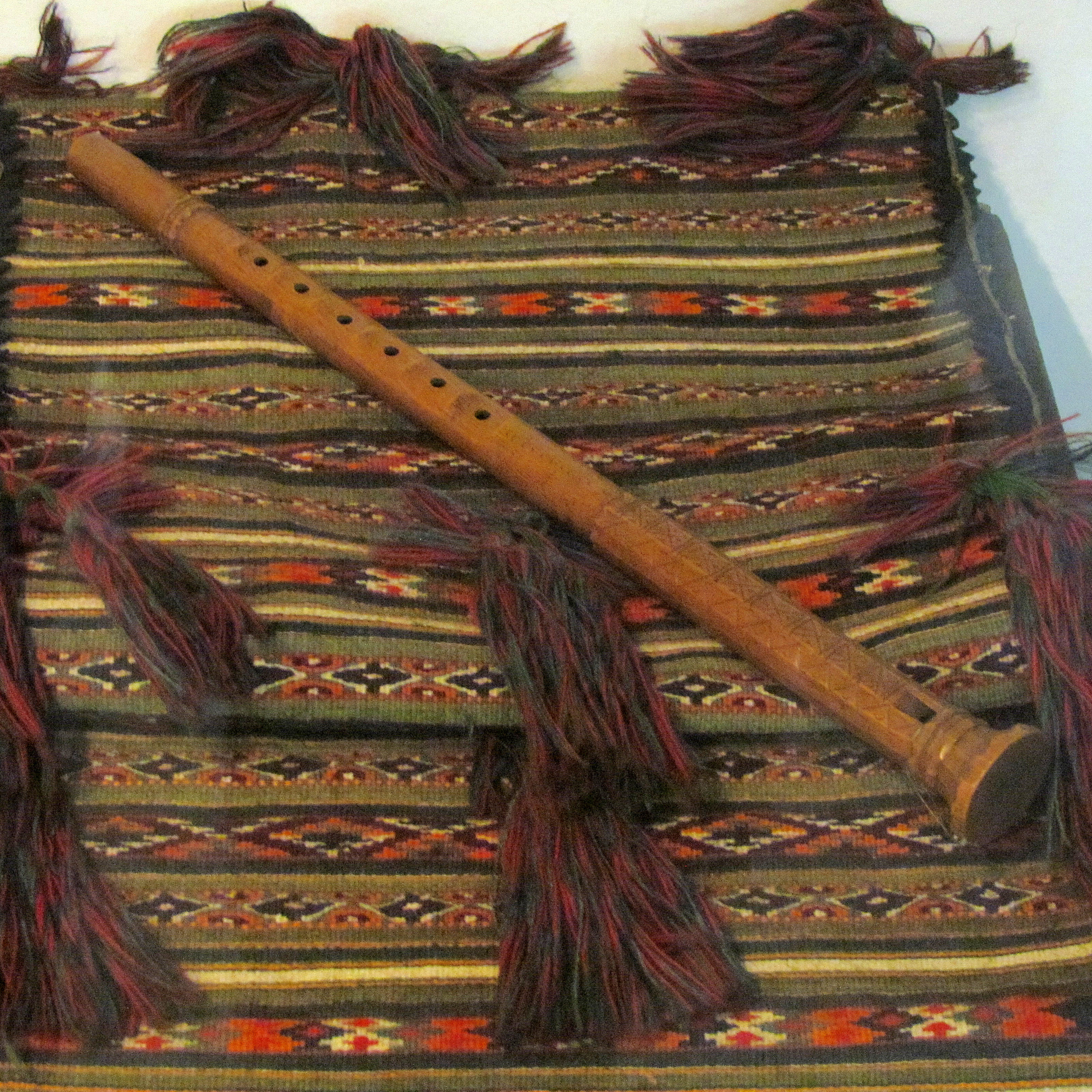 Slavić, serbian musical instrument from Lika, Ethnographic Museum in Belgrade